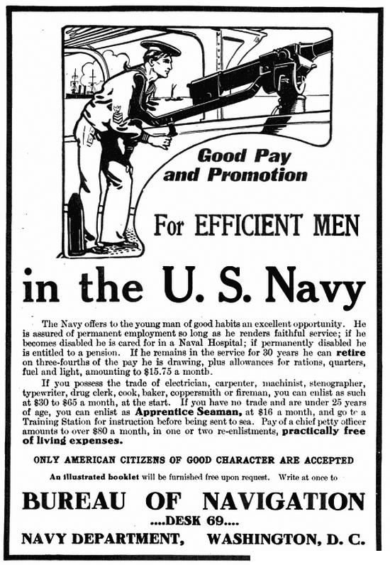 United States Navy recruitment advertisement in Popular Mechanics, 1908.